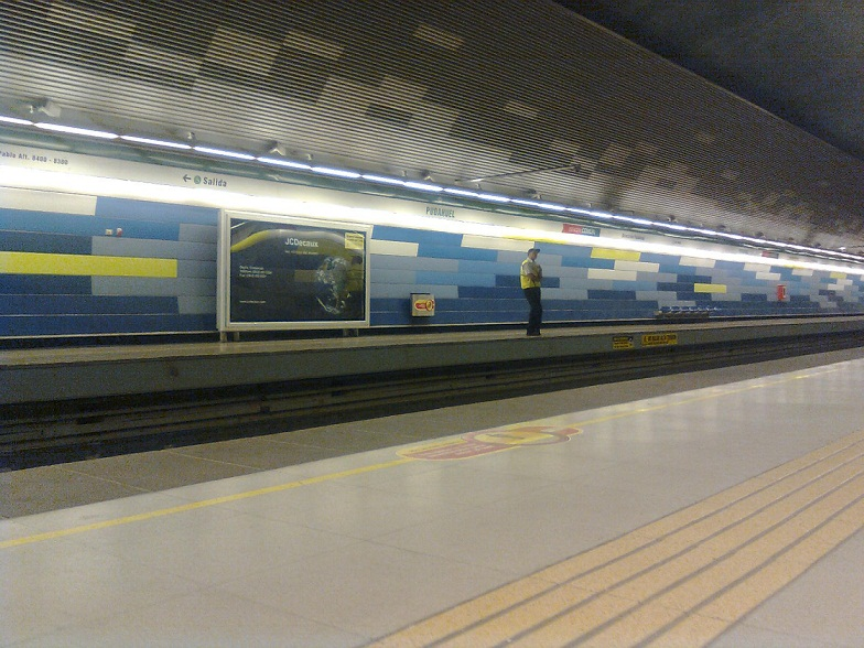 Estación Pudahuel